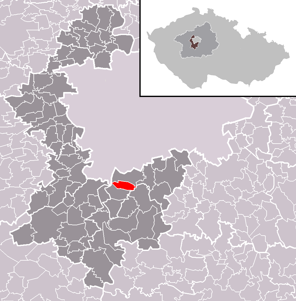 Location of Ohrobec municipality within Prague-West District and administrative area of Černošice as a Municipality with Extended Competence.